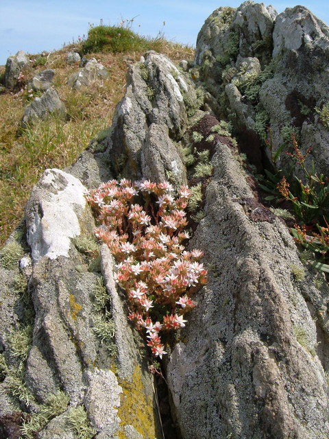 Stonecrop near Warren Point. Sedum anglicum in rocks above the point.